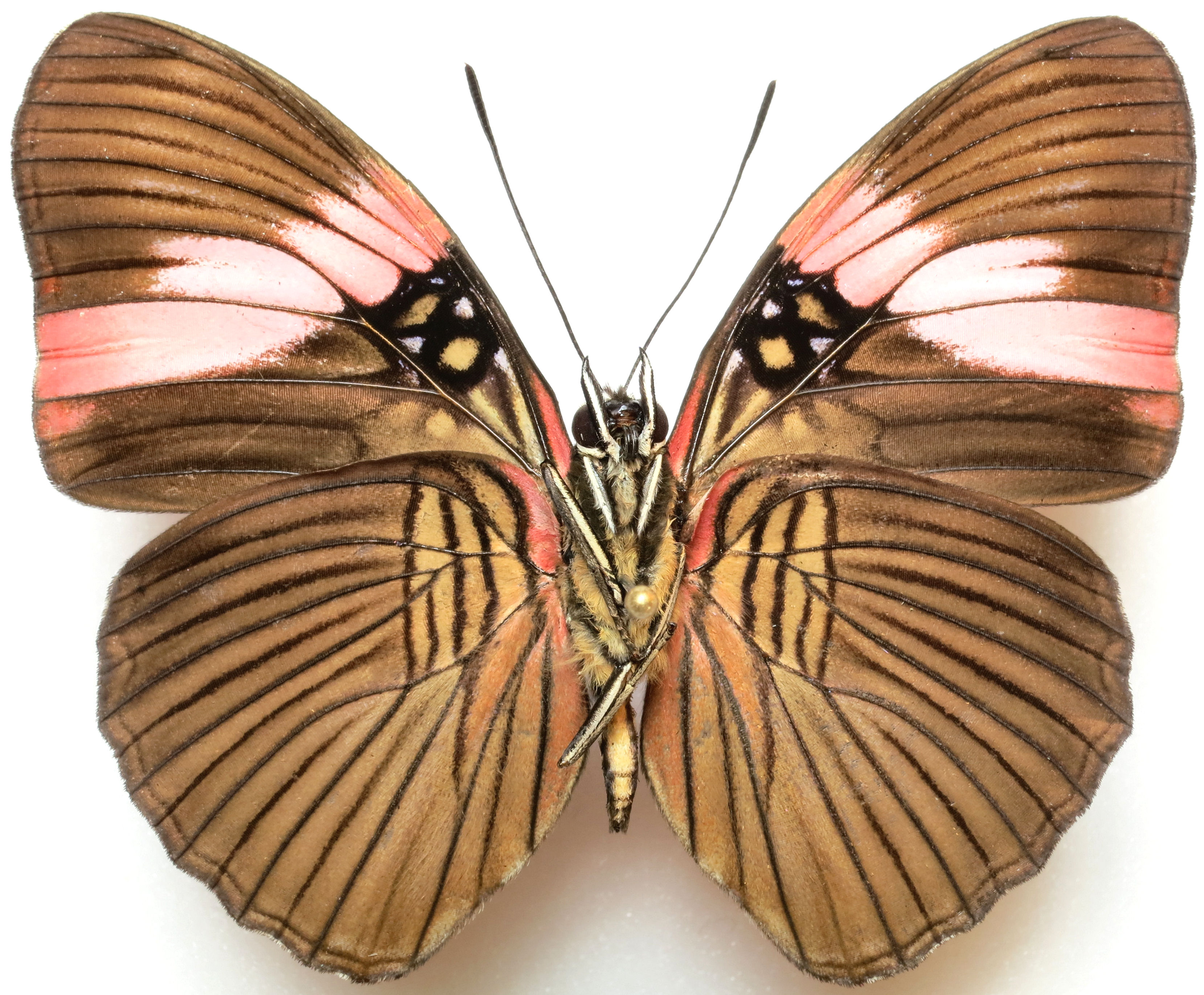 Adelpha lycorias lara ventral - Tingo Maria, Huánuco, Peru